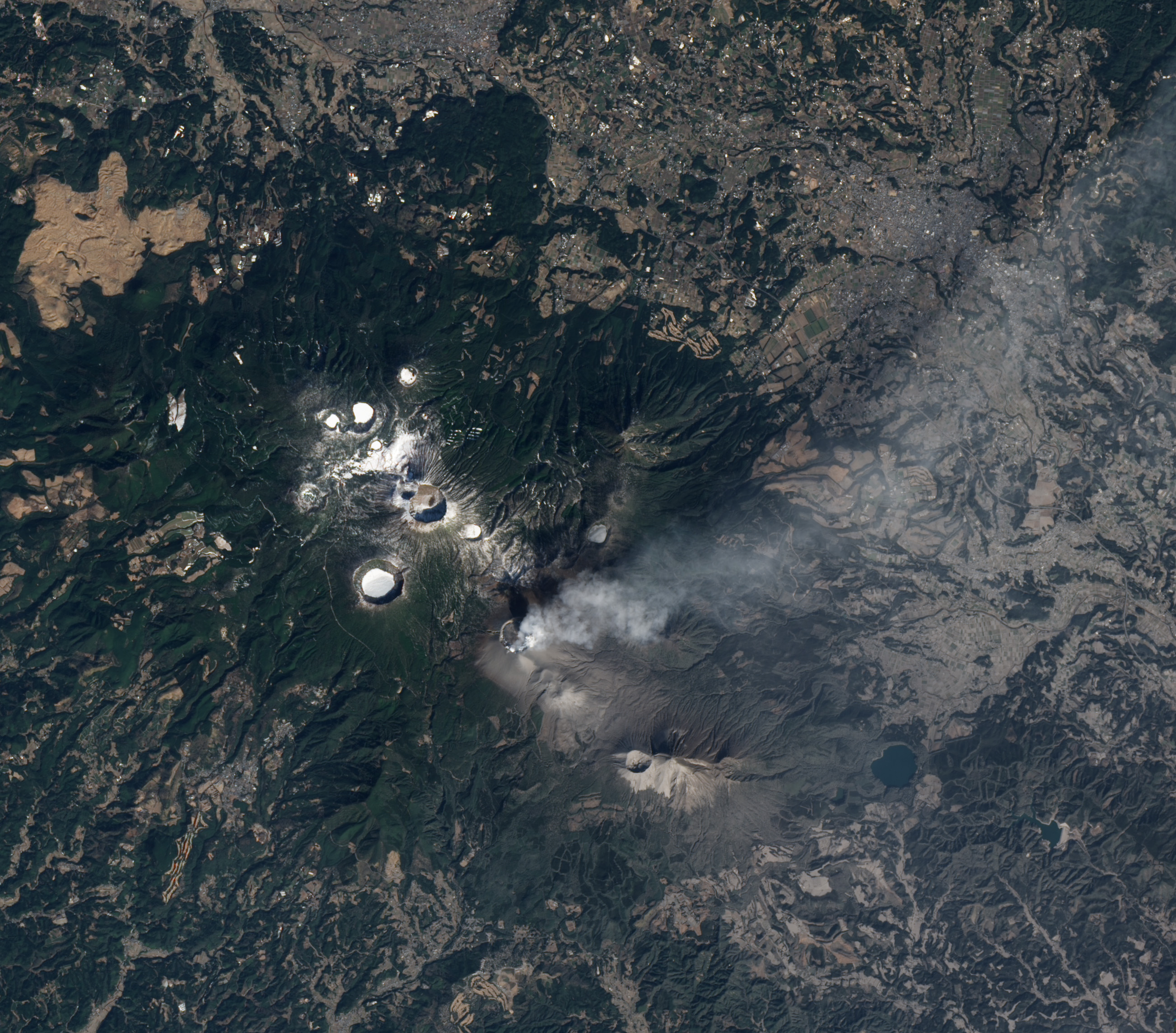 Natural-colour satellite image of Shinmoe-dake. A volcanic plume, coloured white and light gray, rises from the margins of the dome, thinning as it spreads eastwards. Gray ash coats the ground south-east of the crater. Additional features of the Kirishima Volcanic Field, such as the ice-covered crater lake to the north-east, surround Mount Shinmoe.